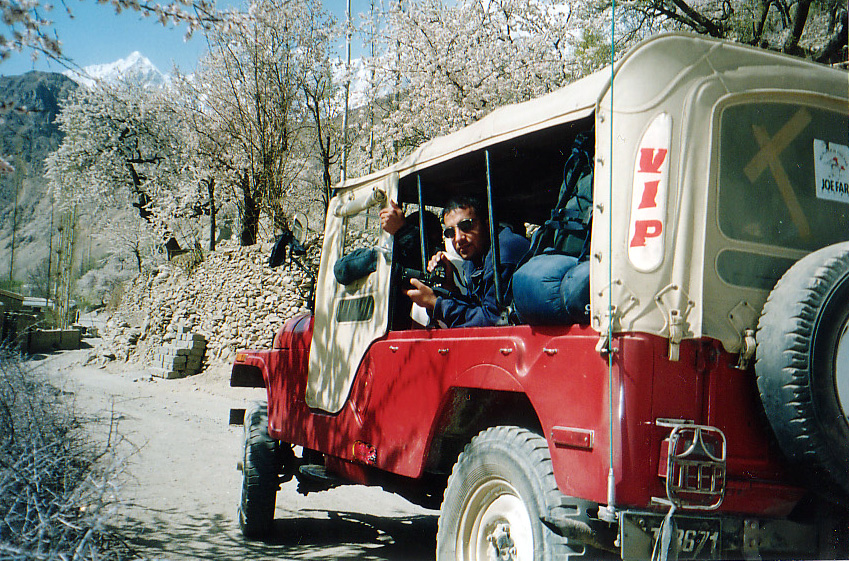 Jeeps' are the best way to travel up in the North West Frontier